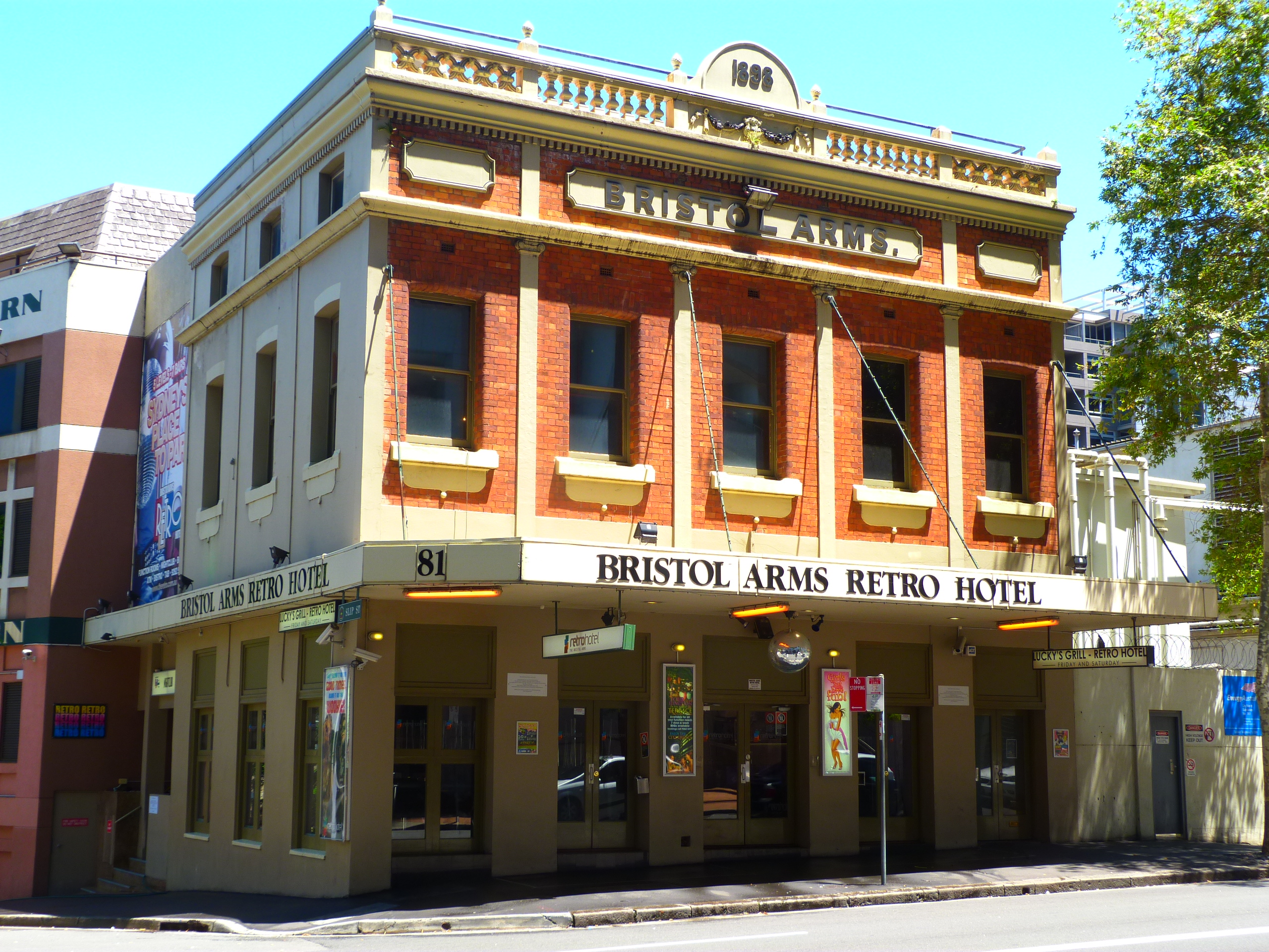 Bristol Arms Hotel, 81 Sussex Street, Sydney CBD, New South Wales, Australia. This building is listed on the New South Wales State Heritage Register.